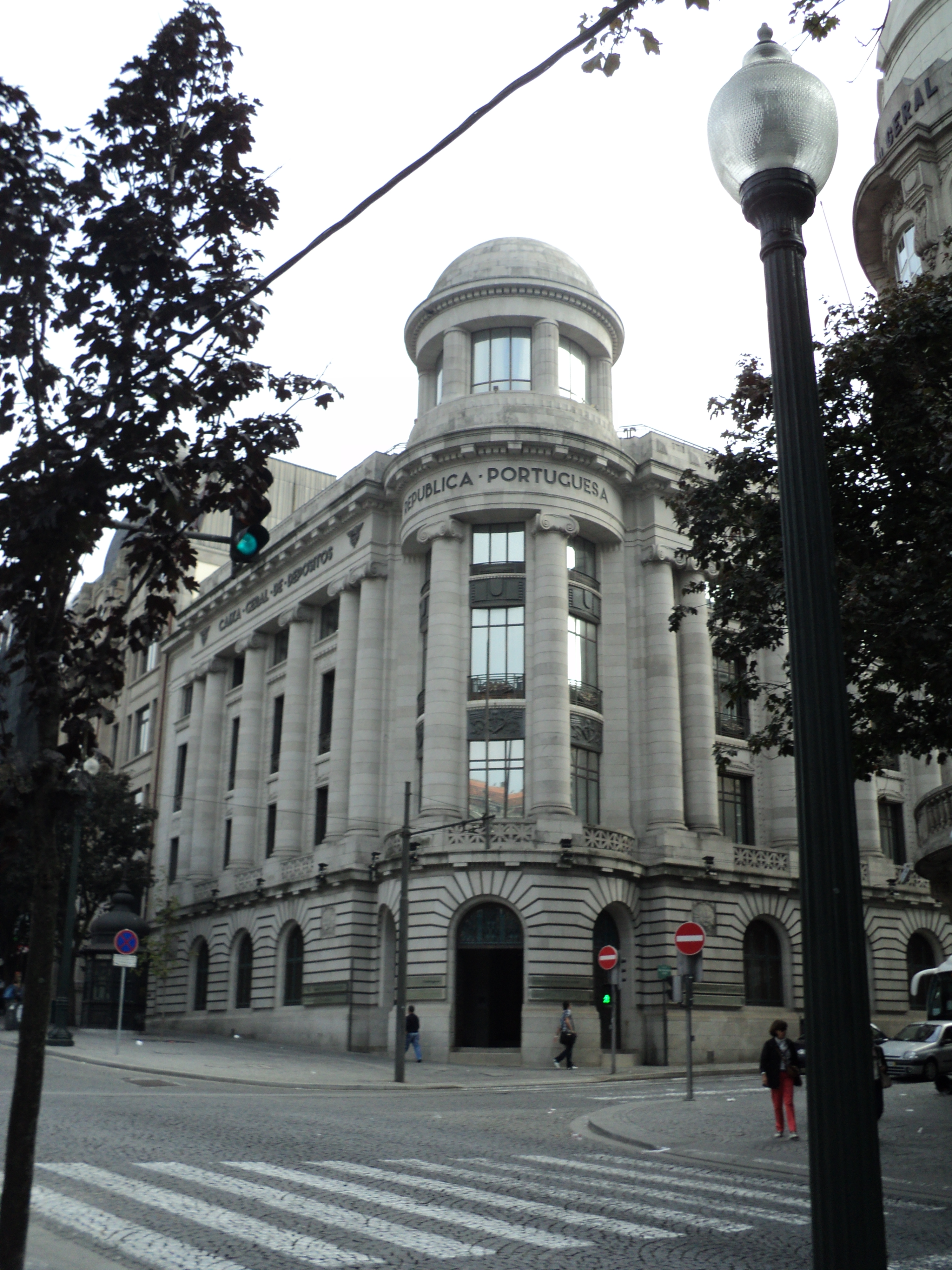 This file was uploaded for Wiki Loves Monuments in Portugal with the unique identifier 17402. This building is classified as Incluído em sítios classificados.